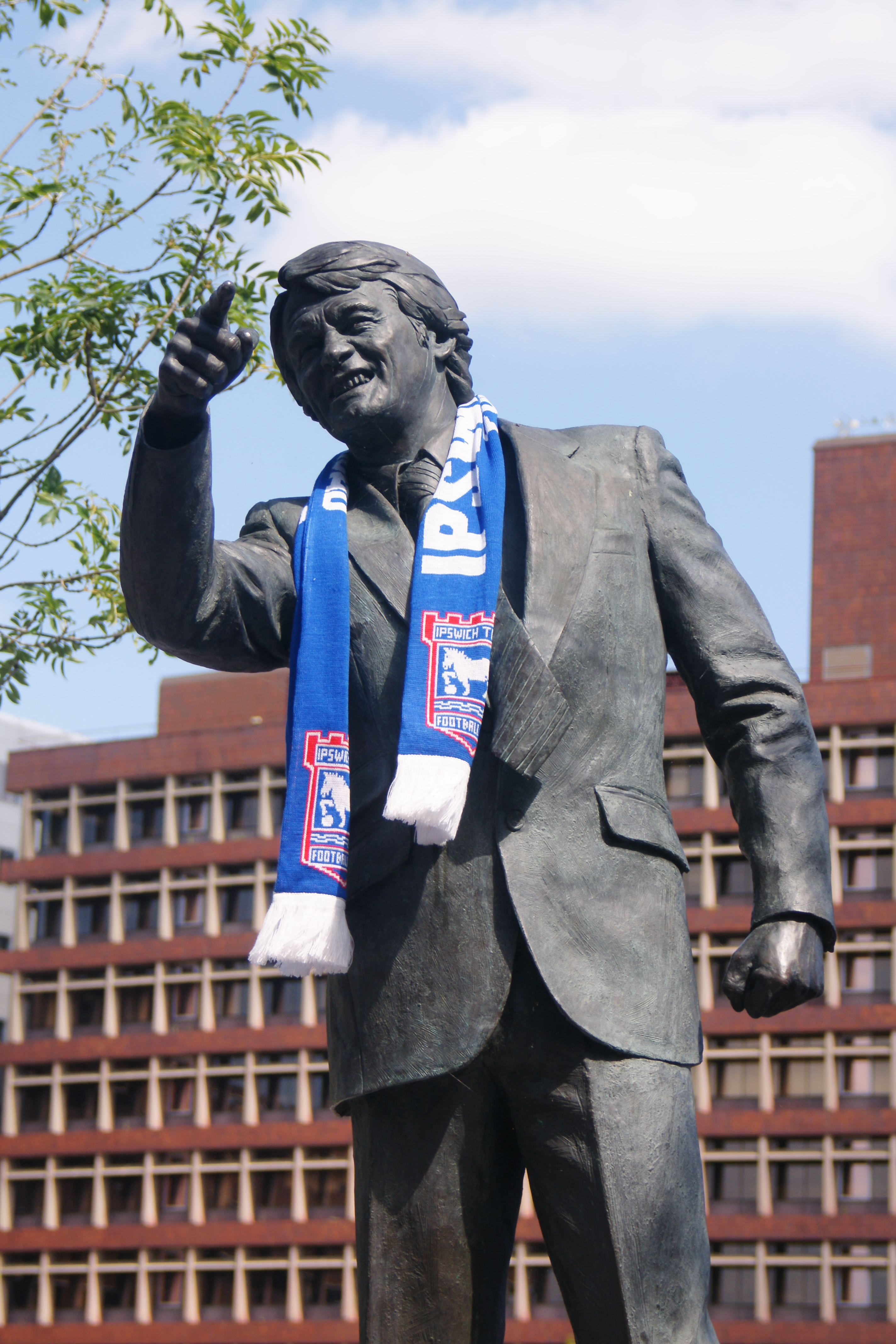 The statue of Sir Bobby Robson outside Ipswich Town F.C.'s home stadium Portman Road in Ipswich, Suffolk, England. It stands on Portman Road facing the east stand (the Cobbold Stand). Robson was manager of the club from 1969 until 1982, guiding them to success in the 1981 UEFA Cup Final. Sculpted by Sean Hedges-Quinn, it was unveiled on 16 July 2002. Robson was honorary president of the club from 7 July 2006 until his death on 31 July 2009. See the category for full details.